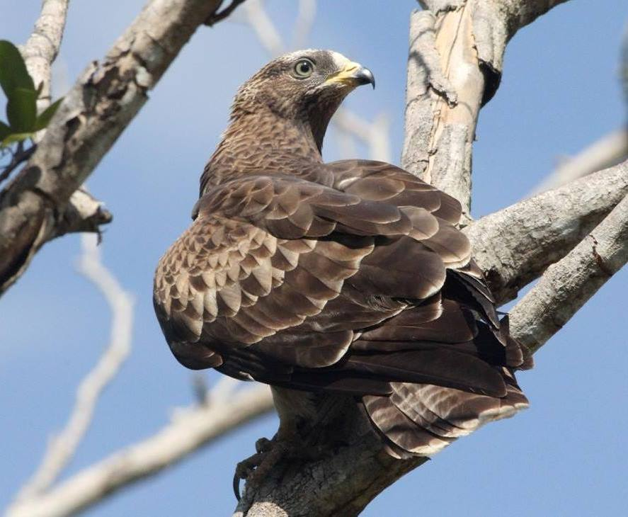 An immature European honey buzzard at Unguana in Inhambane province, southern Mozambique. Note the yellow cere and dull iris colour. In adults the iris becomes bright yellow and the cere grey to blackish.